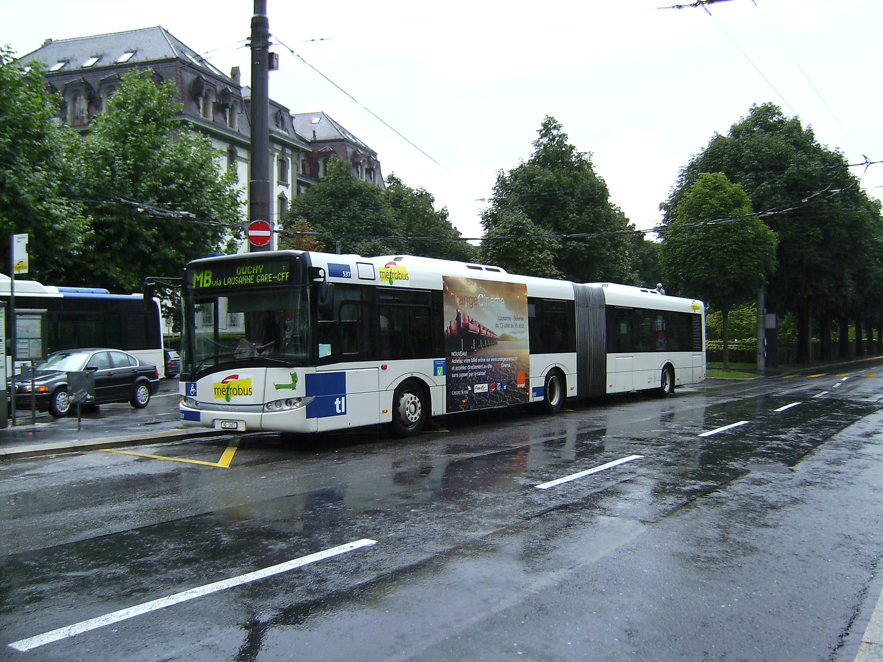 Solaris Urbino 18 bus (#537, reg. VD 1601, built 2005, métrobus) in Lausanne, Switzerland. Transports publics de la région lausannoise SA (TL Lausanne) from Renens operator. This bus replaces M2 metro line, that is reconstructed now. Photo taken near Lausanne-Flon metro station.